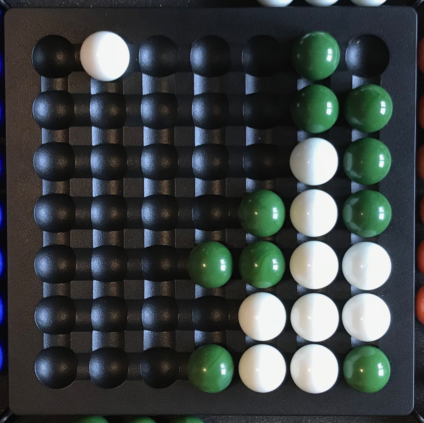 board game Shiftago